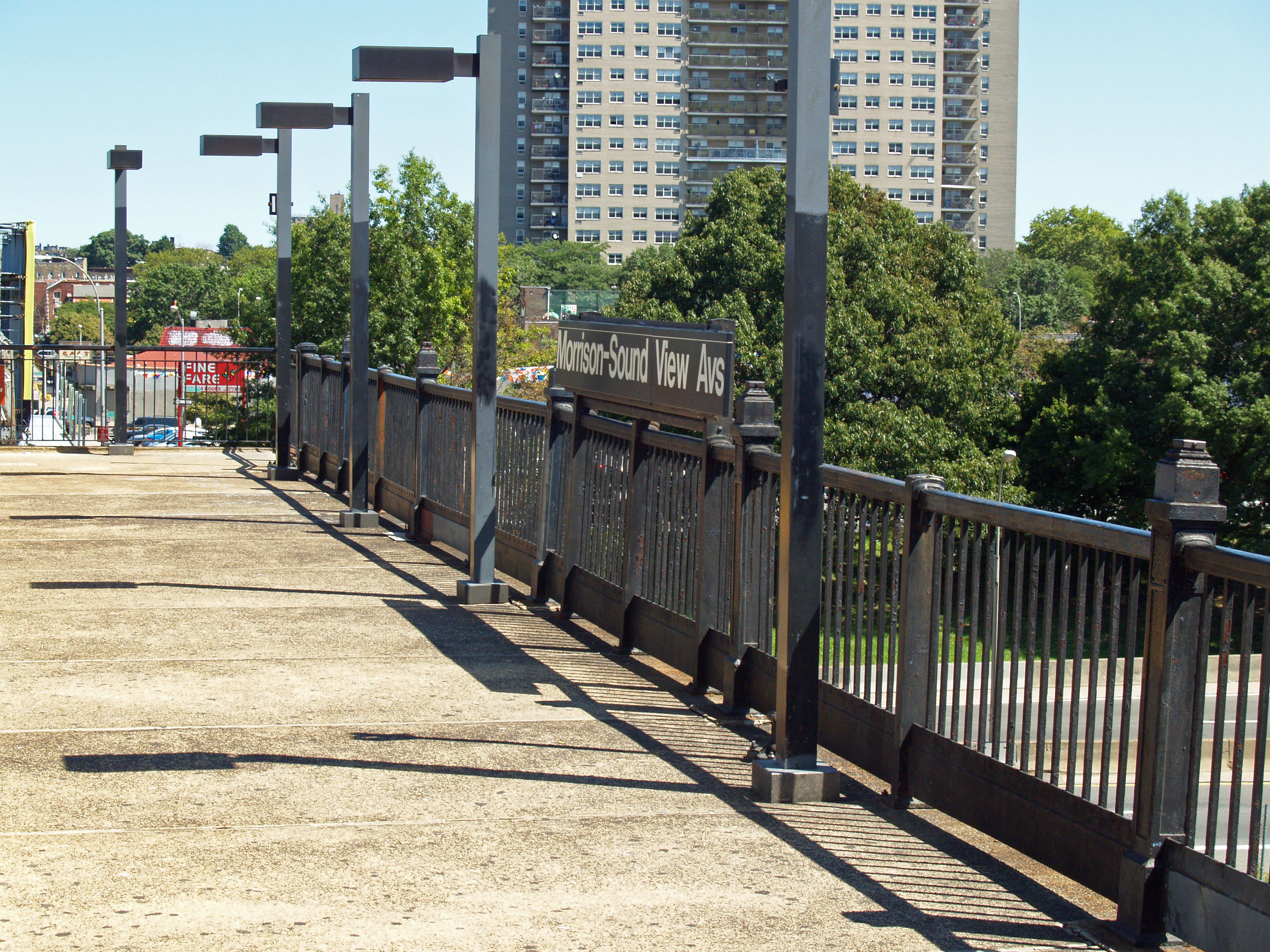 Morrison–Sound View Avenues (IRT Pelham Line) by David Shankbone